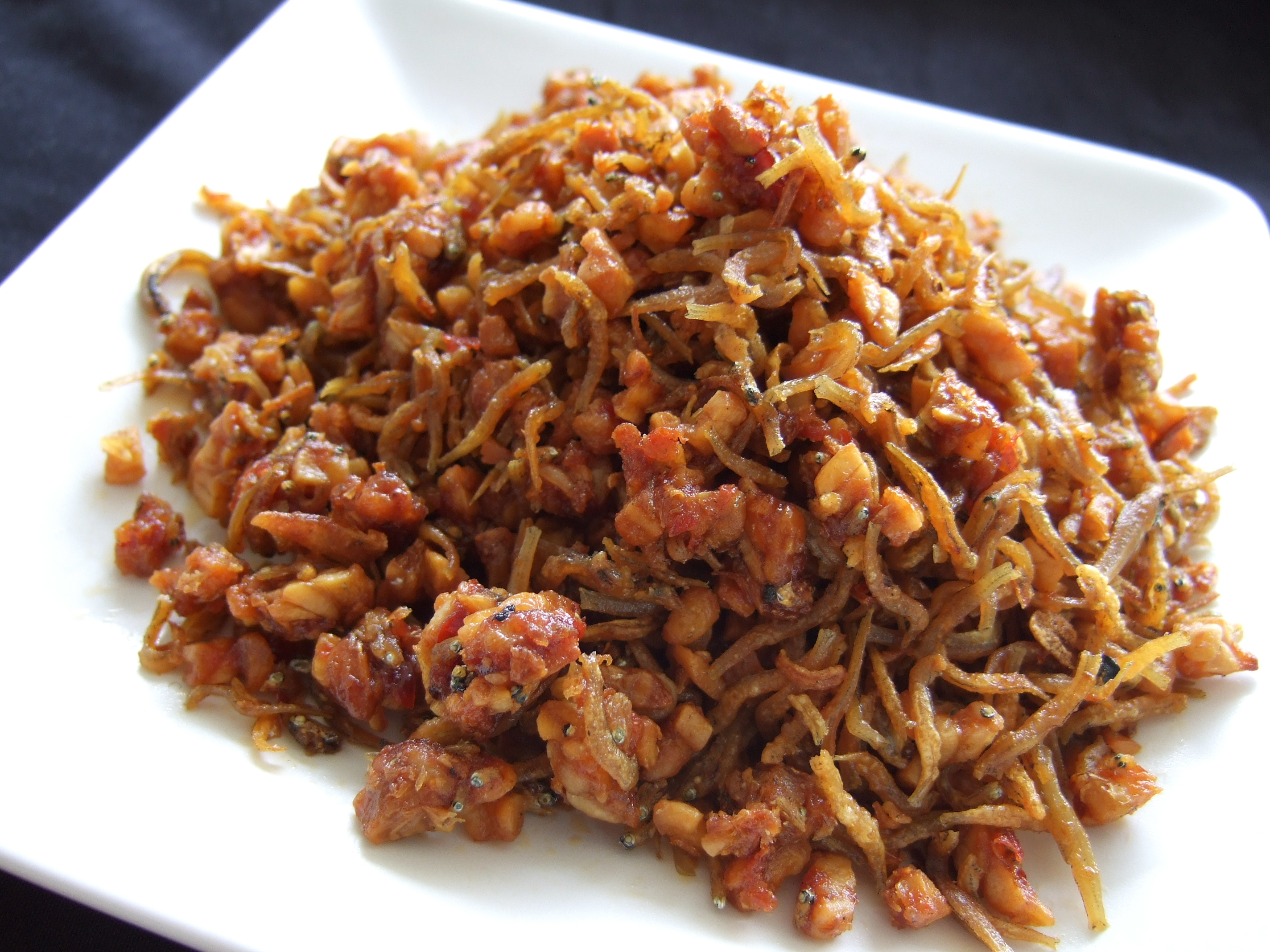 Dried Anchovy and tempe in chili sauce